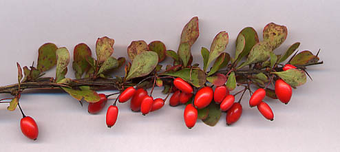 Berberis thunbergii shoot with fruit